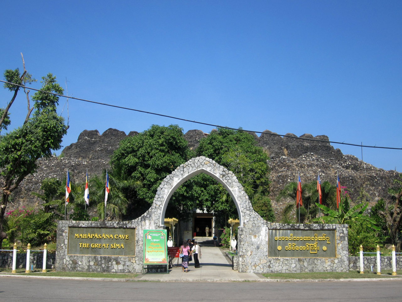 Mahapasana Guha Cave and Great Sima (Ordination Hall), Yangon, Myanmar မြန်မာဘာသာ: ရန်ကုန်မြို့ရှိ မဟာပါသာဏလှိုင်ဂူသိမ်တော်ကြီး